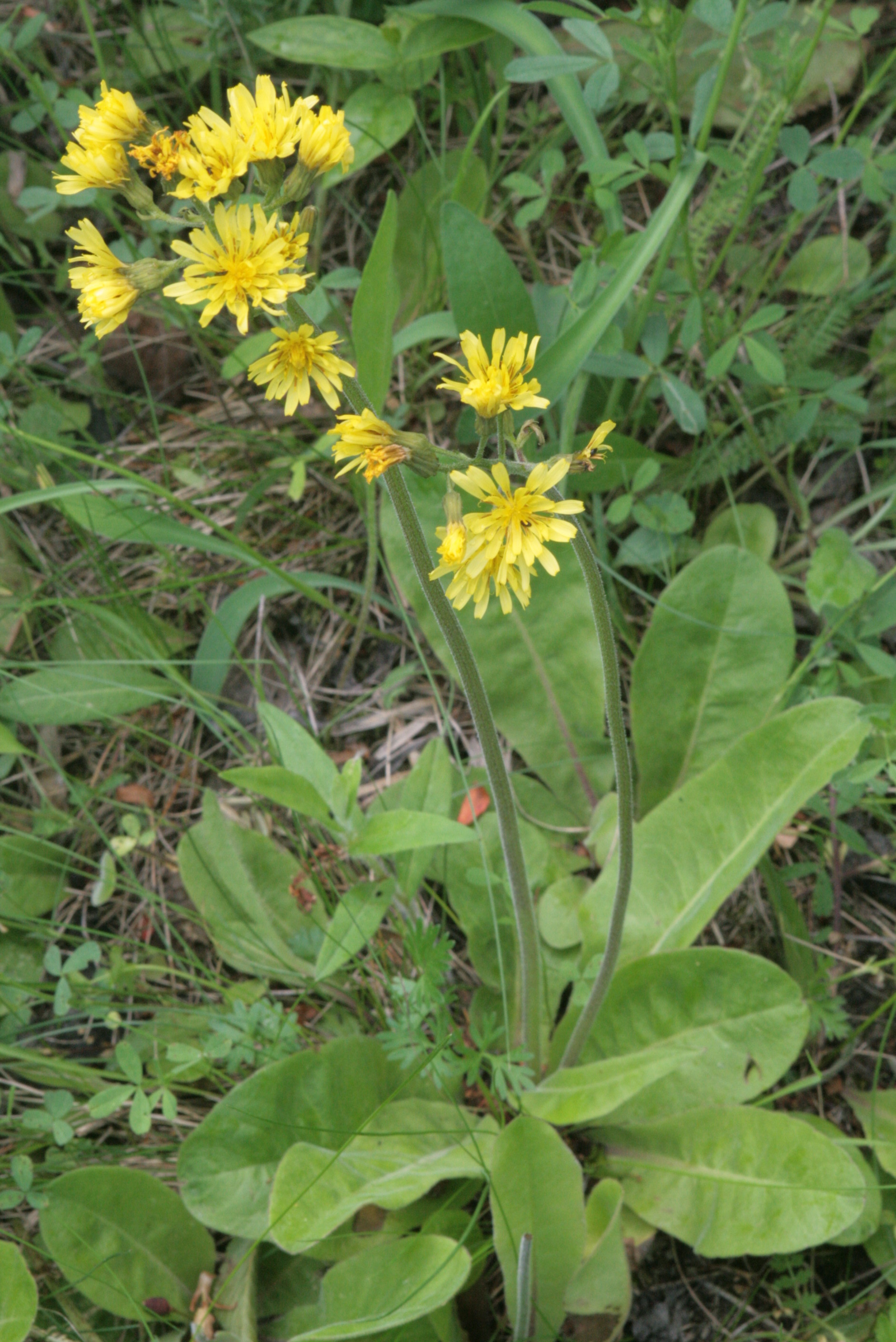 Crepis praemorsa